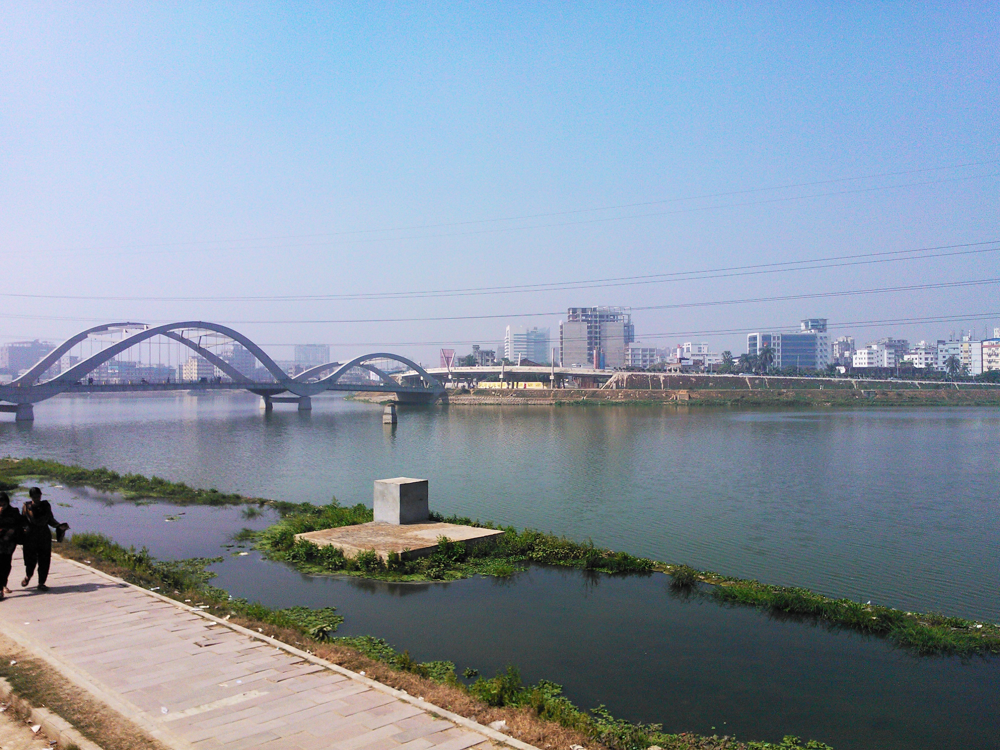 Hatirjheel, (view of 2nd bridge and lake) Dhaka, Bangladesh.